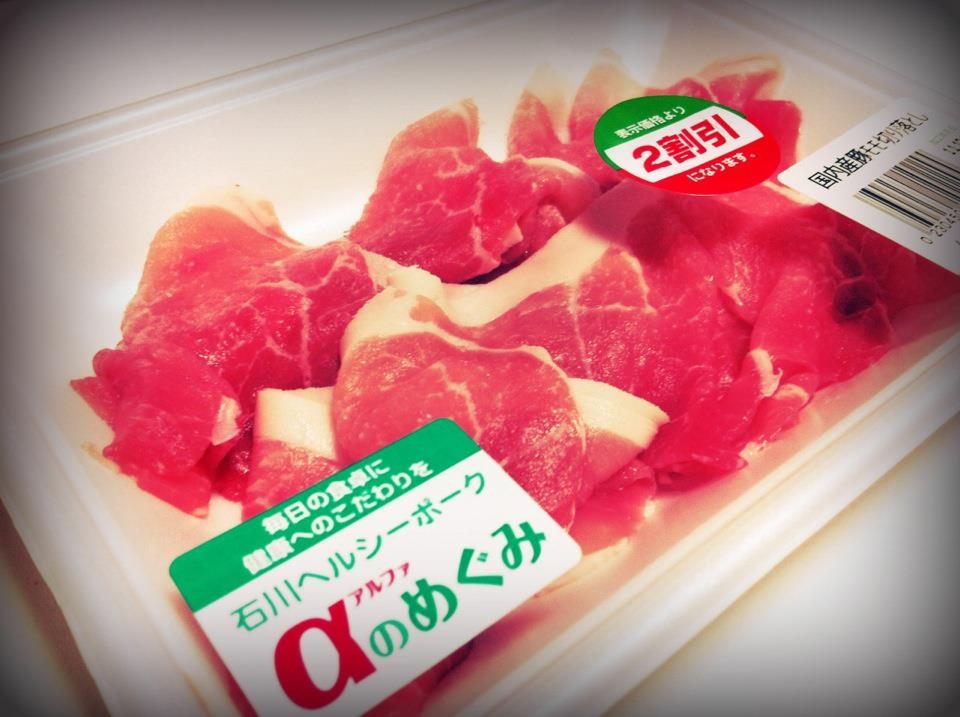 I took this photo in supermarket and already got a permission.